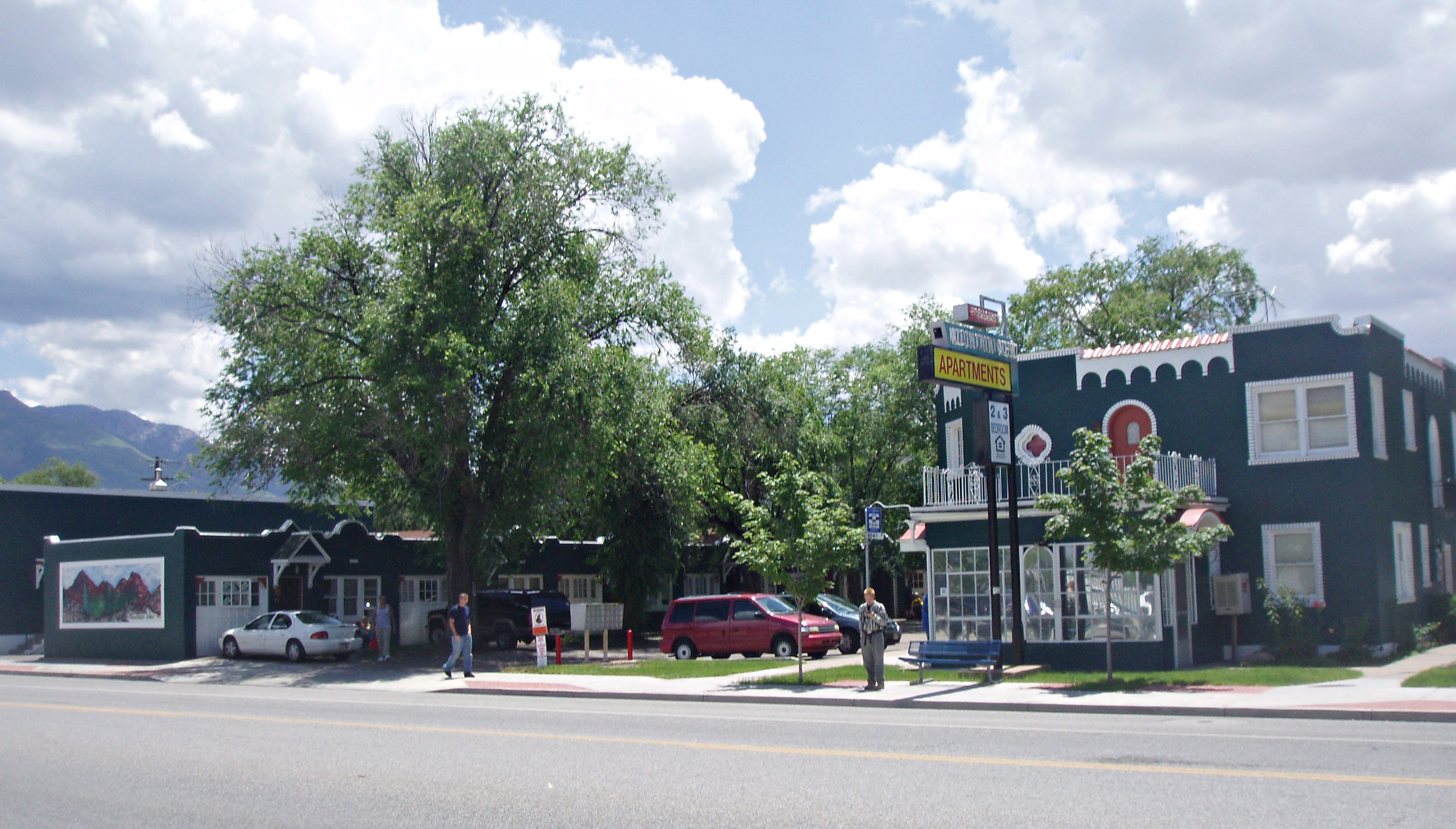 The Mountain View Auto Court, a historic property in Ogden, Utah, United States.